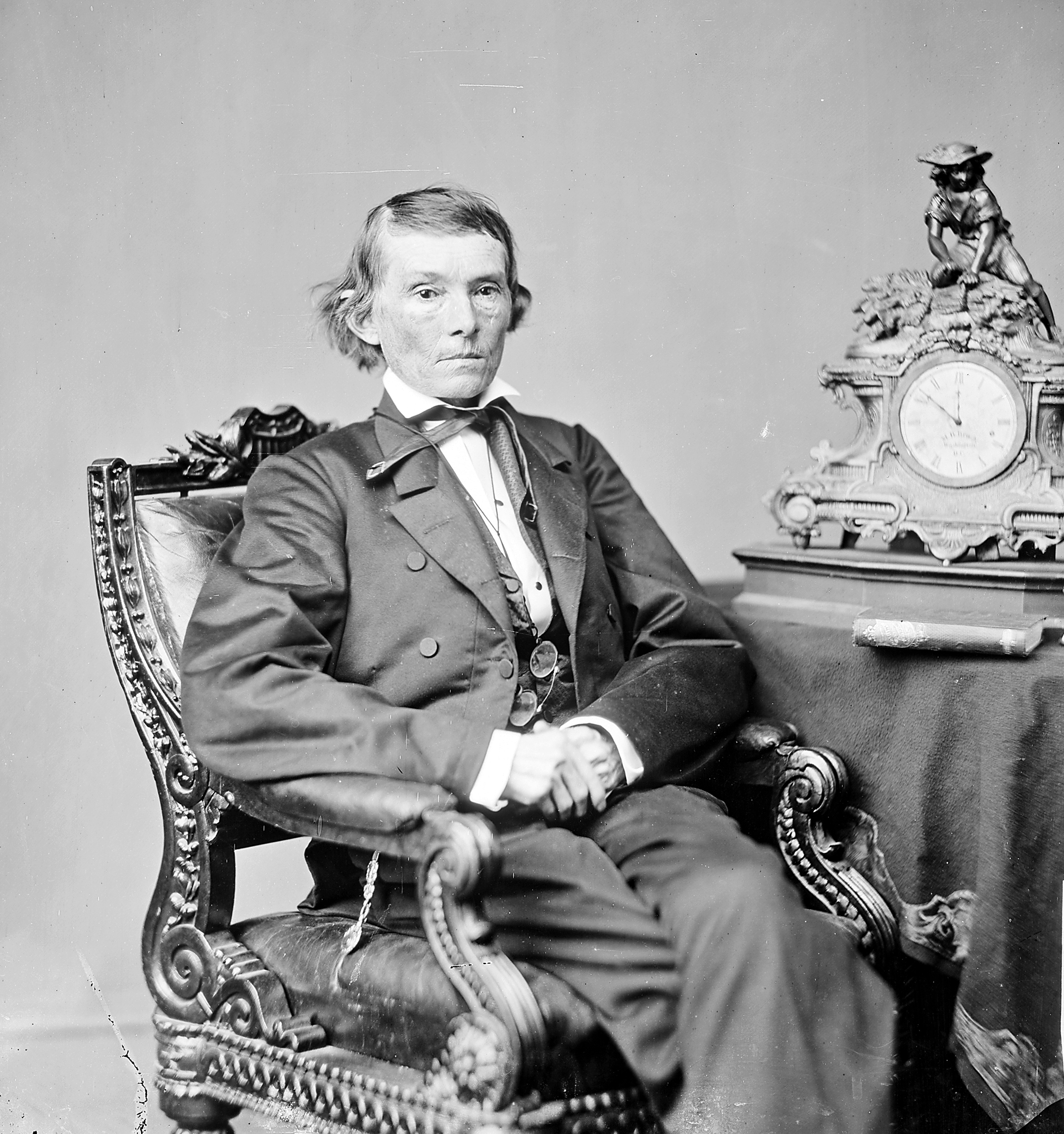 Alexander Stephens, Vice President of CSA.